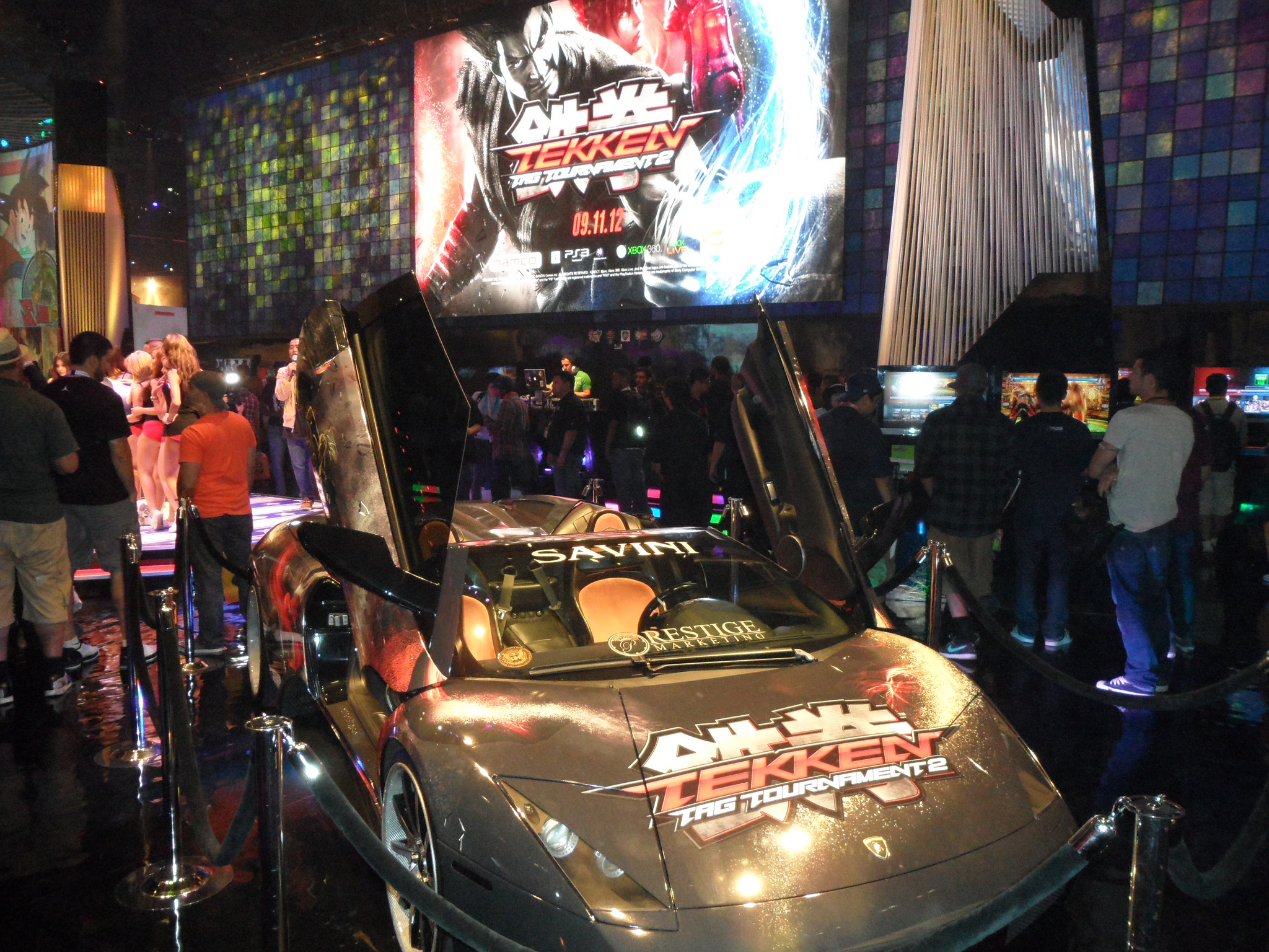 Picture taken at E3 2012 in Los Angeles. Feel free to use this picture for your websites. This work is licensed under the terms of the Creative Commons Attribution-Share Alike 2.0 Generic license (CC BY-SA 2.0). Please attribute the work by adding a link to my website: . Thank you :-)